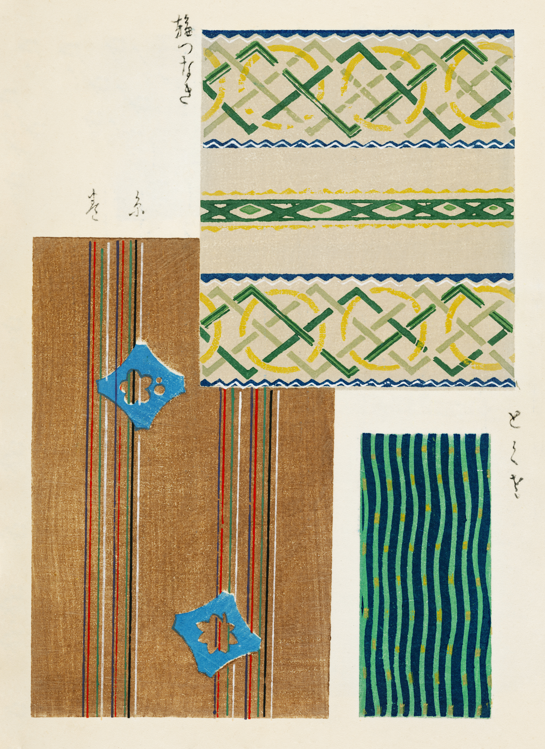 Vintage woodblock print of Japanese textile from Shima-Shima (1904) by Furuya Korin. Digitally enhanced from our own original edition.